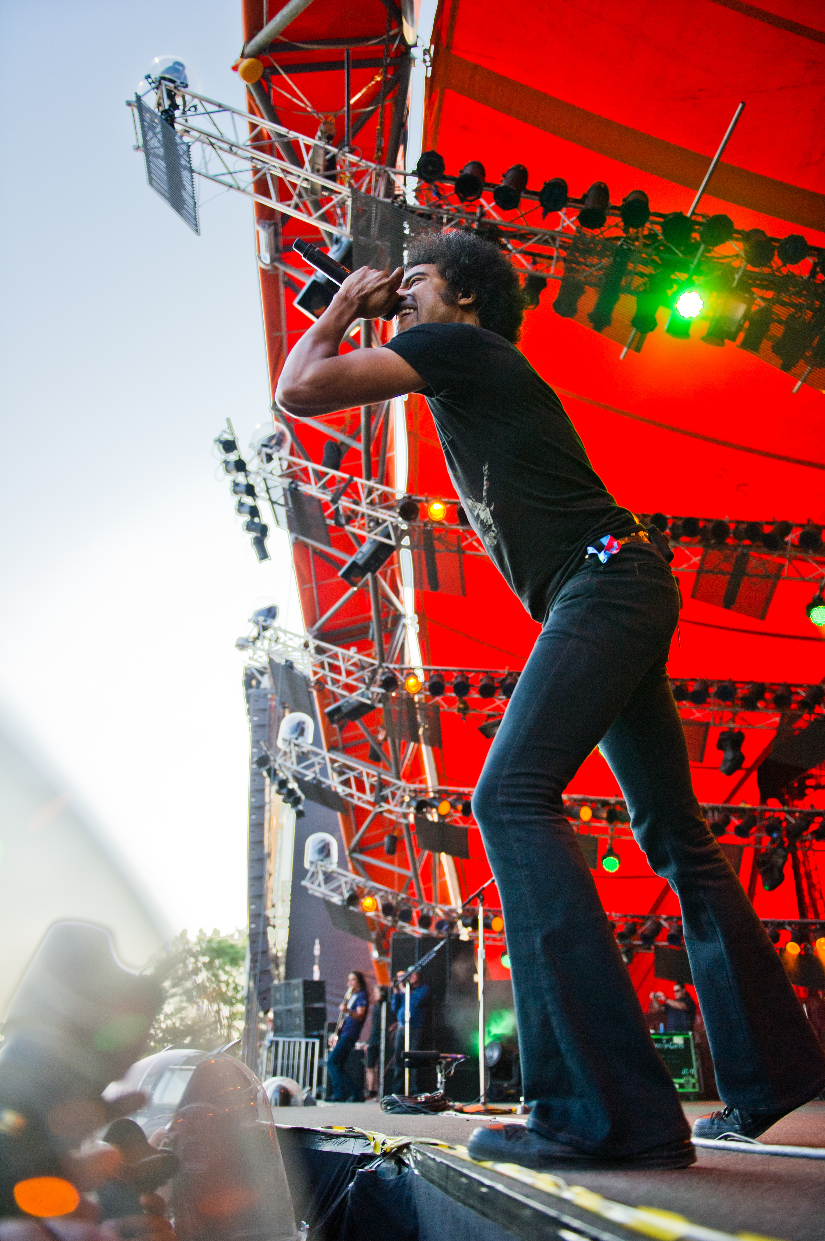 William DuVall - Alice in Chains - Roskilde Festival 2010